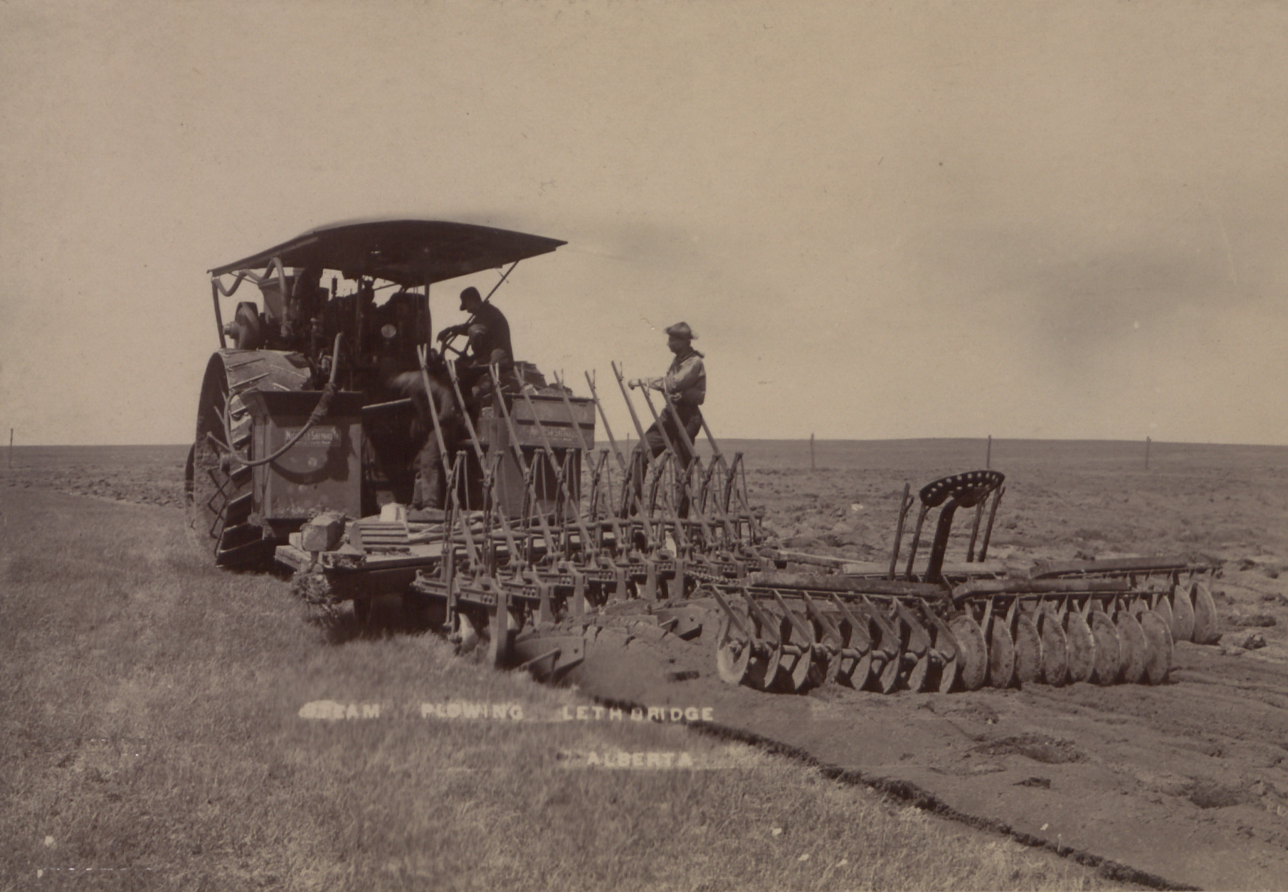 Steam plowing, Lethbridge, Alberta.